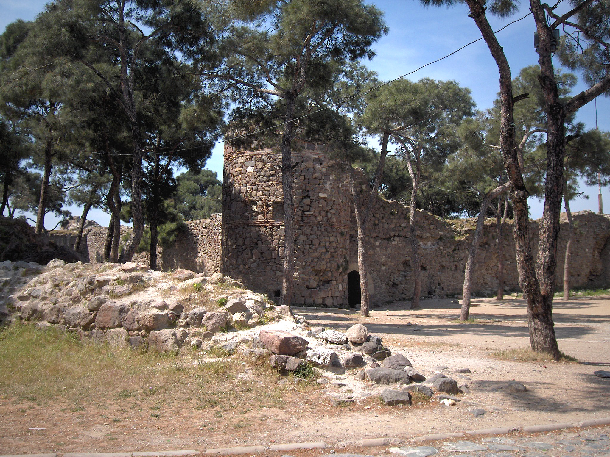 Wall of the castle built by Lysimachos about 300 BC; Kadifekale (Izmir, Turkey); built in the period of Alexander the Great